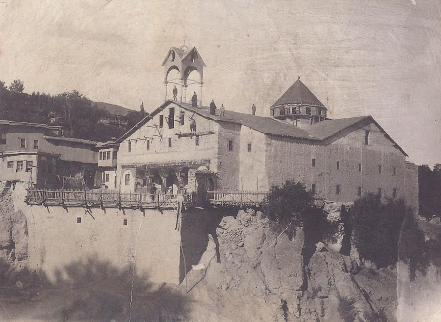 Former Church of the Holy Mother of God, Arapgir